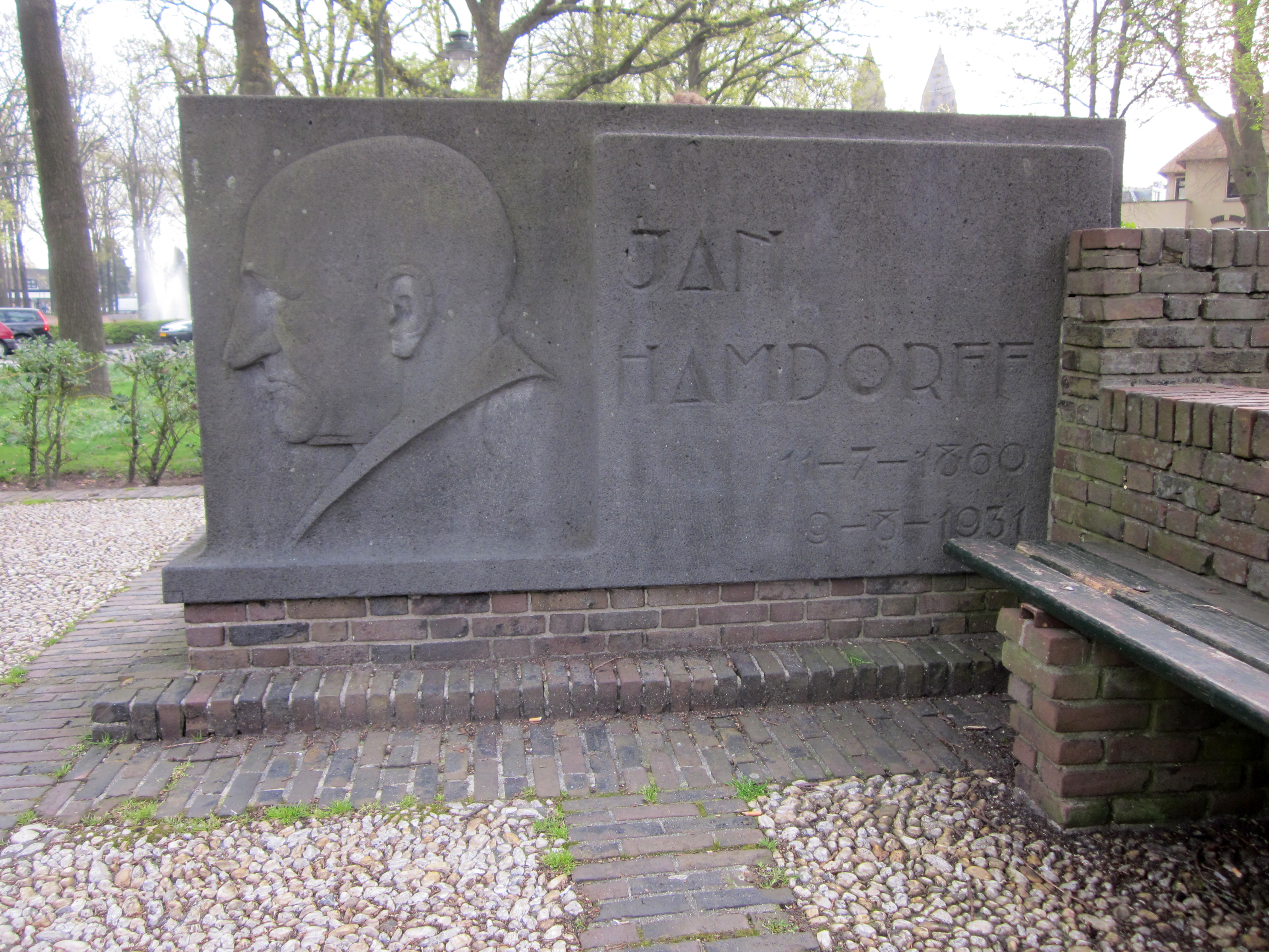 streetfurniture in remembrance of hotel owner Jan Hamdorff, made by his son Wouter Hamdorff in 1932 and placed at the Brink in Laren.